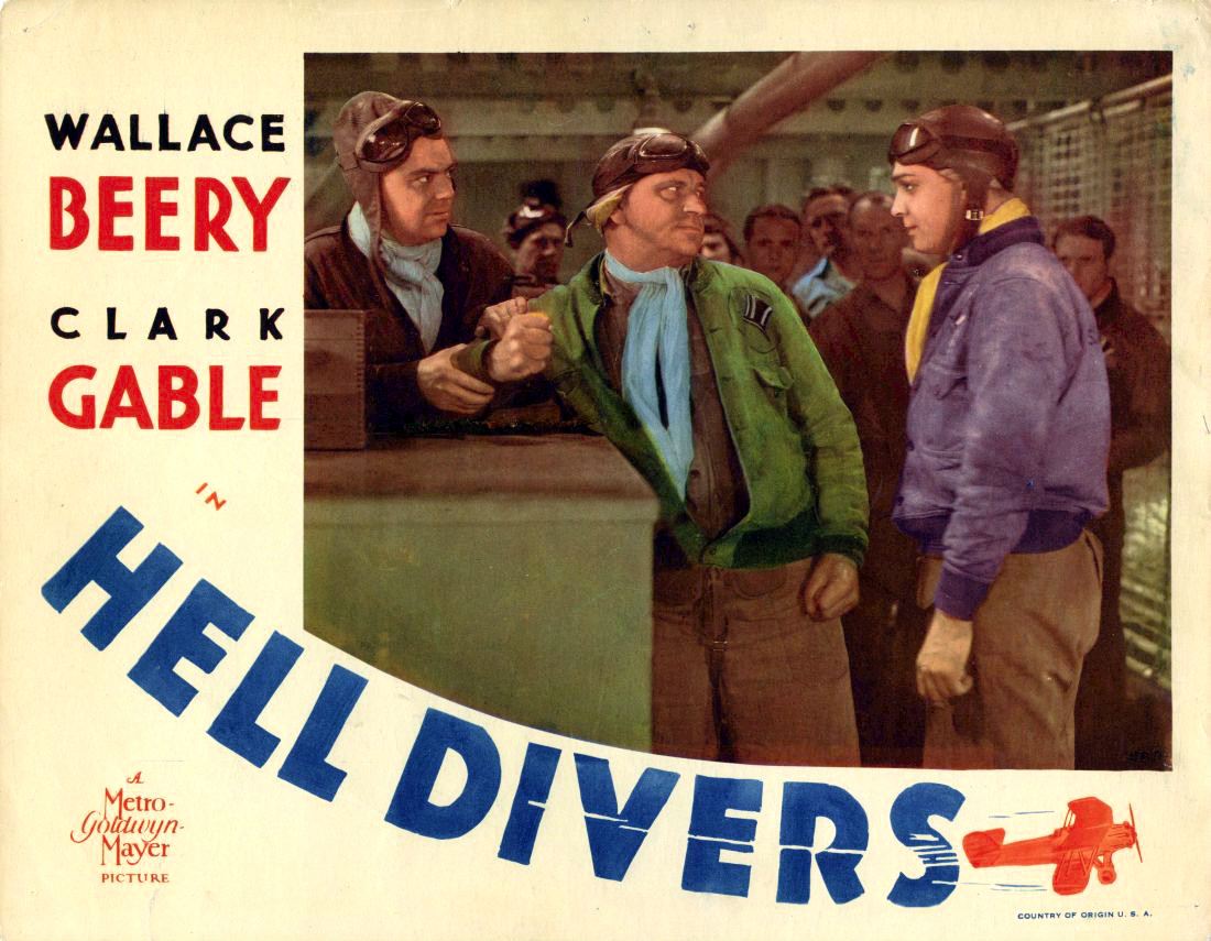 Lobby card from the 1932 film Hell Divers with Wallace Beery and Clark Gable.